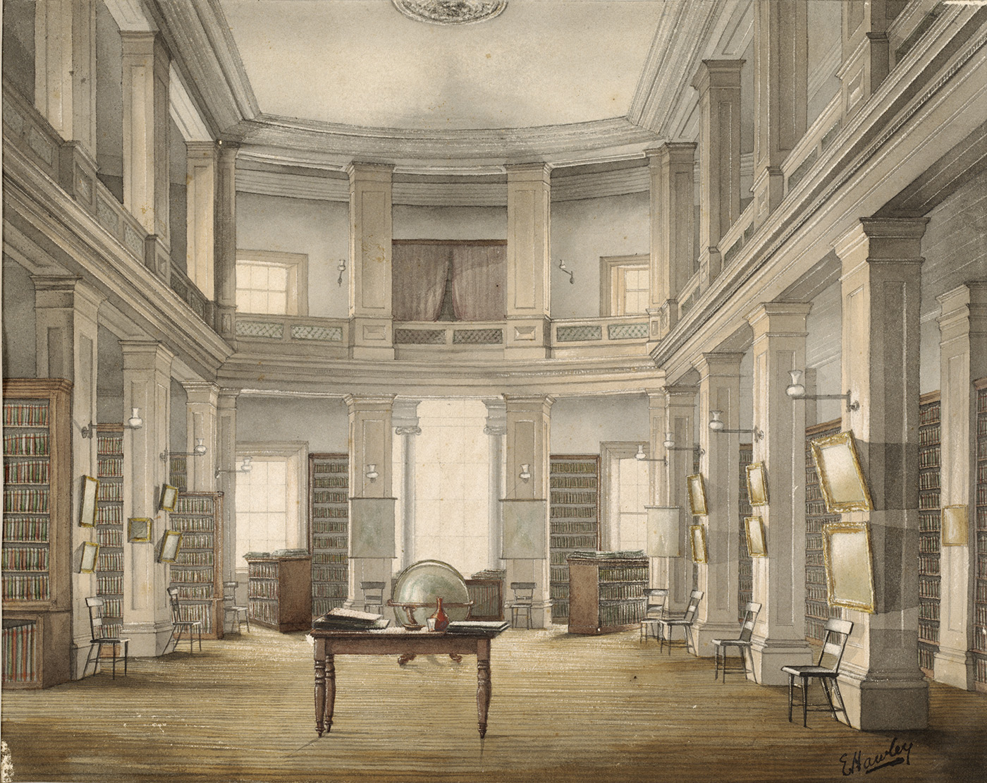 Australian Library and Literary Institution 1868 / watercolour by E. Hawley V/53 IE3143704 FL3143713